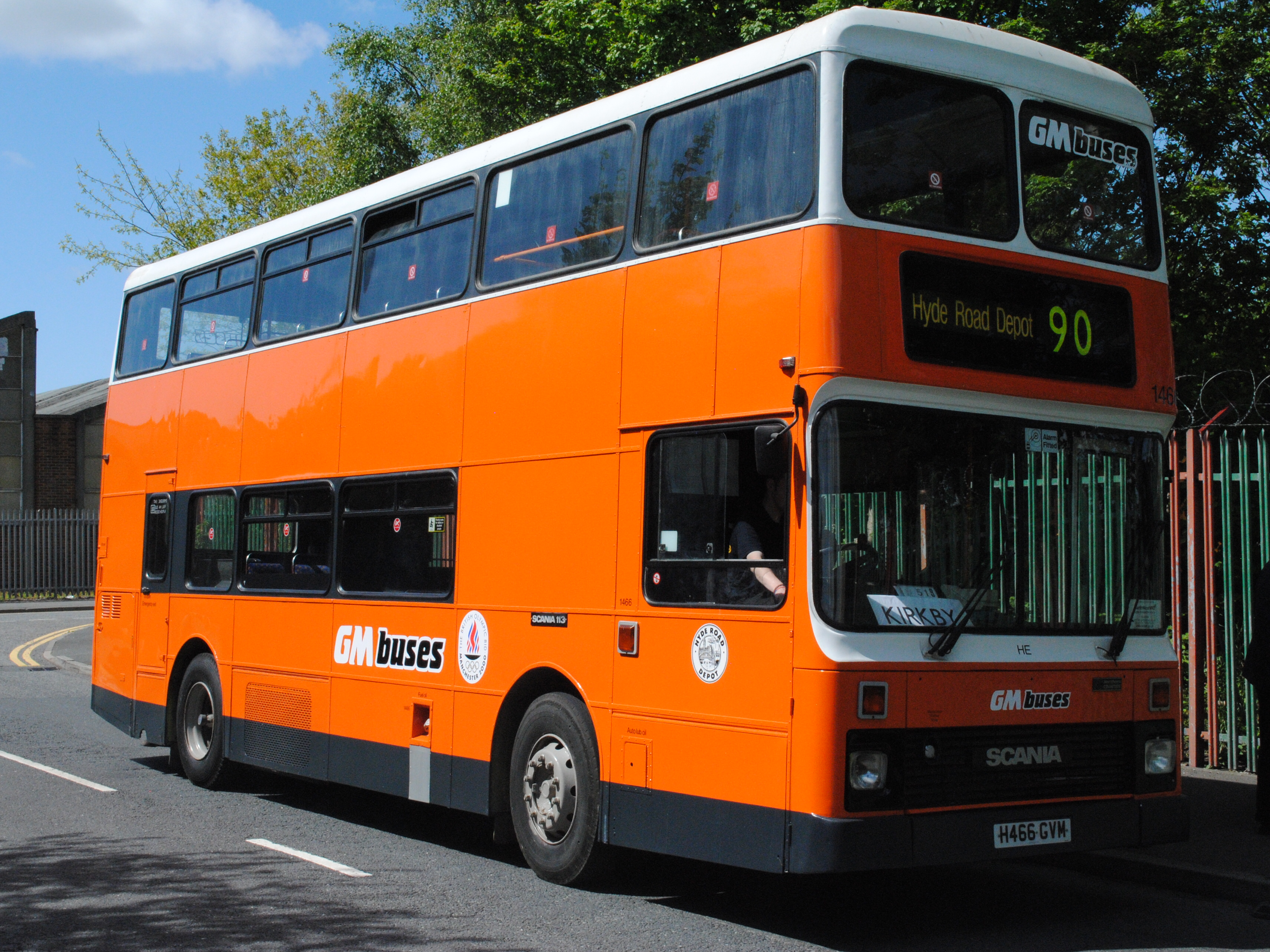 Scania N113DRB Northern Counties. seen here on NWVRT Running Day 2013 in Charleywood Road, Kirkby